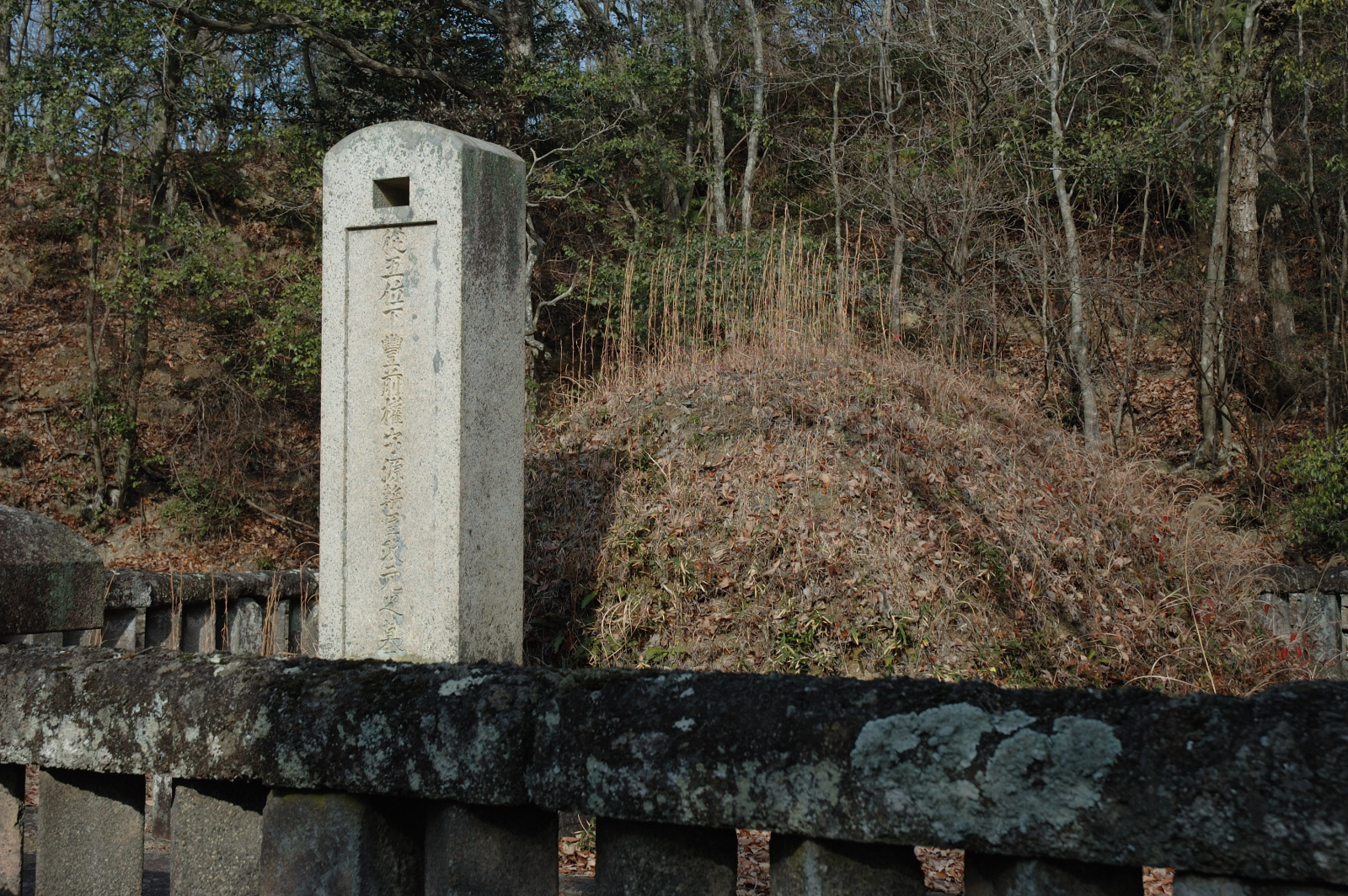 grave of Ikeda Masamoto(Masachika) in Roku-no-oyama